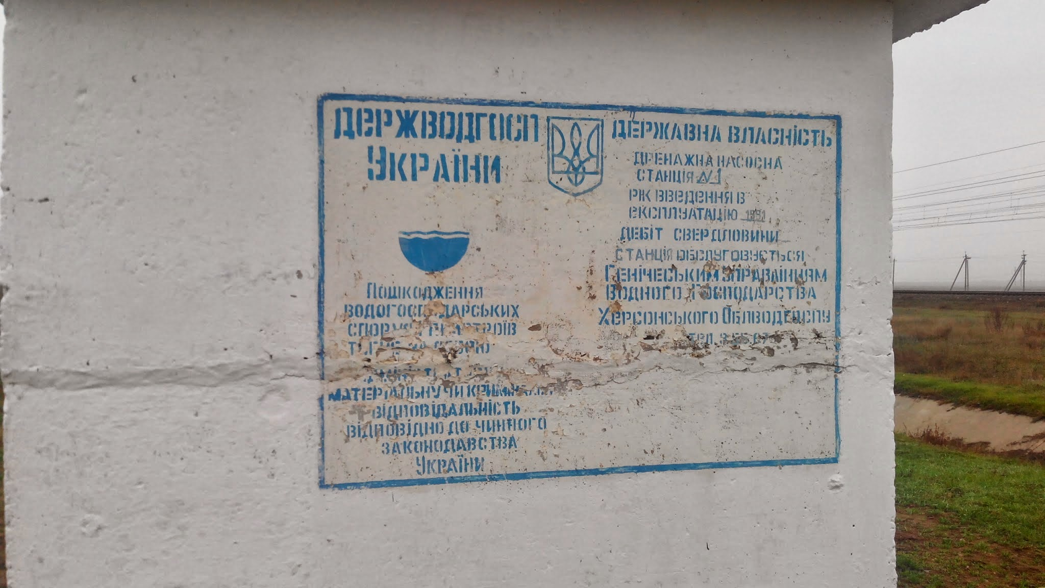 Drainage pumping system in Chonhar, Kherson Oblast, Ukraine